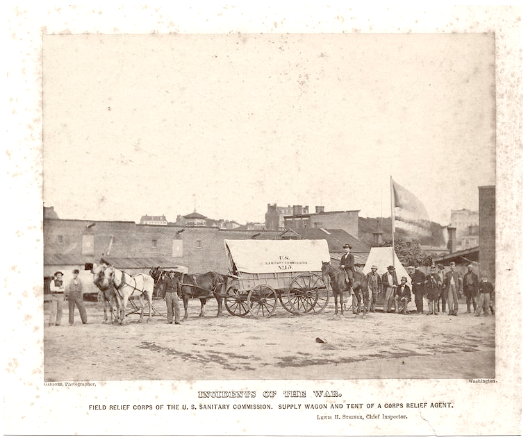 Field relief corps of the U.S. Sanitary Commission. Supply wagon and tent of a corps relief agent. Lewis H. Steiner, Chief inspector.